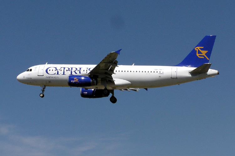 Cyprus Airways Airbus A320-200 (5B-DBC) landing at London (Heathrow) Airport in August 2004. Taken by Adrian Pingstone and released to the public domain.